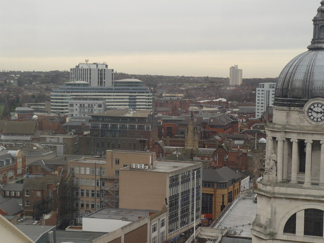 Nottingham Cityscape